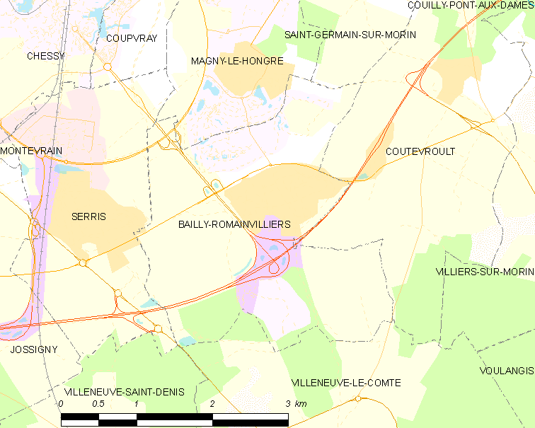 Map of French municipality Bailly-Romainvilliers